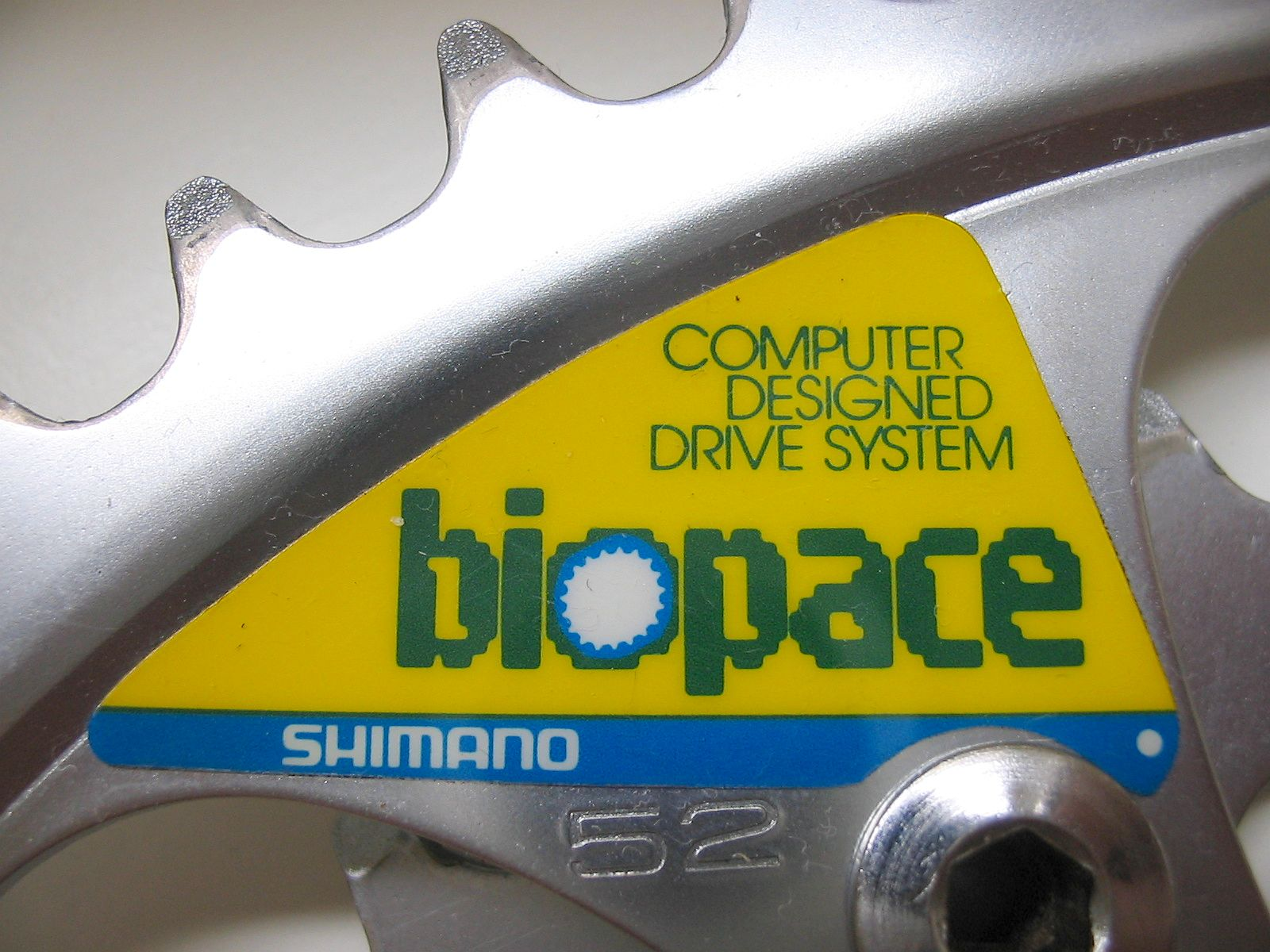 Shimano BioPace sticker